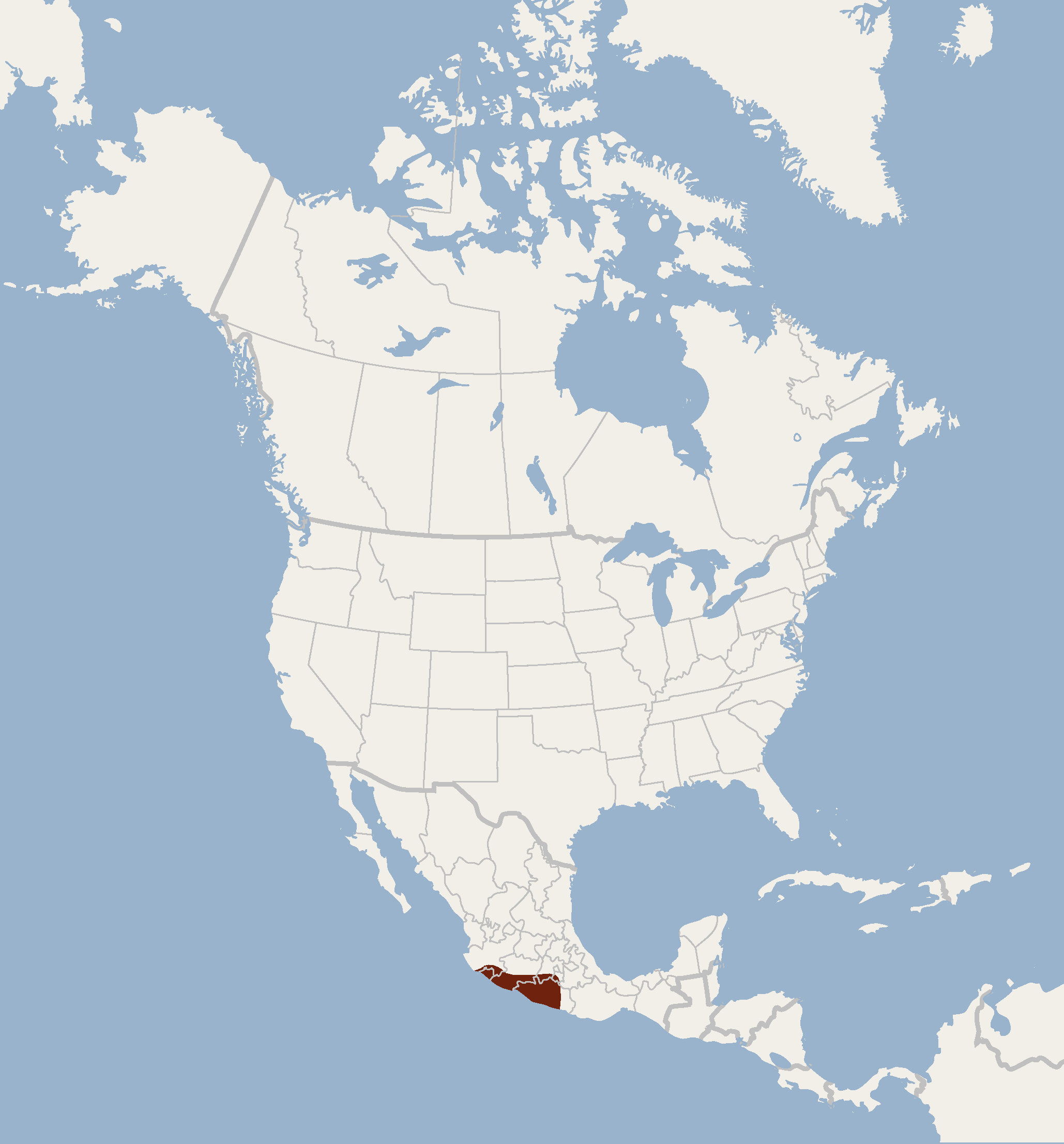 According to Tellez & Ortega, 1999